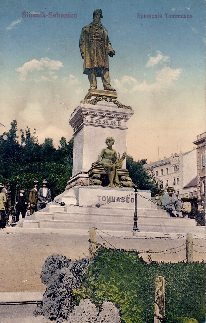 Nikola Tommaseo monument in Šibenik, demolished after WW2